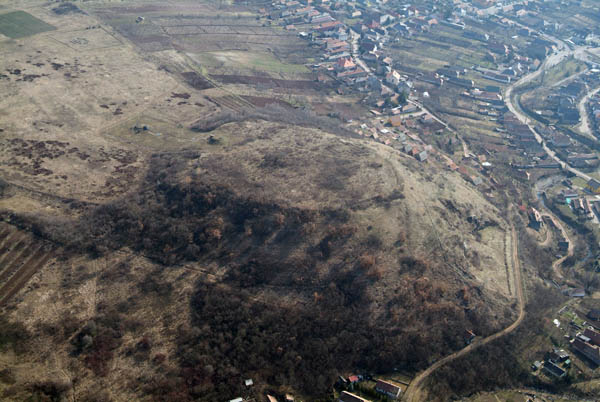 Gyöngyöspata, cstle, hungary, aerial photography